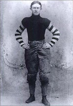 J. A. Gammons